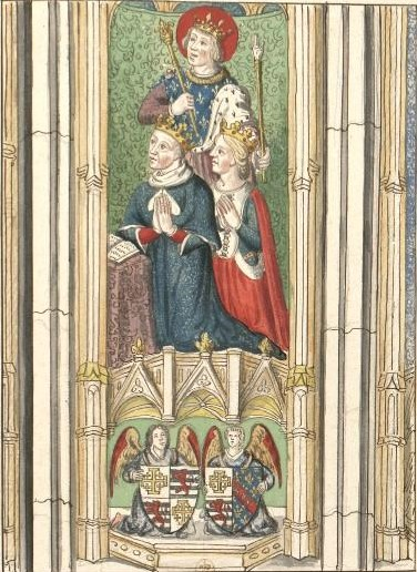 Janus of Cyprus and Charlotte de Bourbon-La Marche